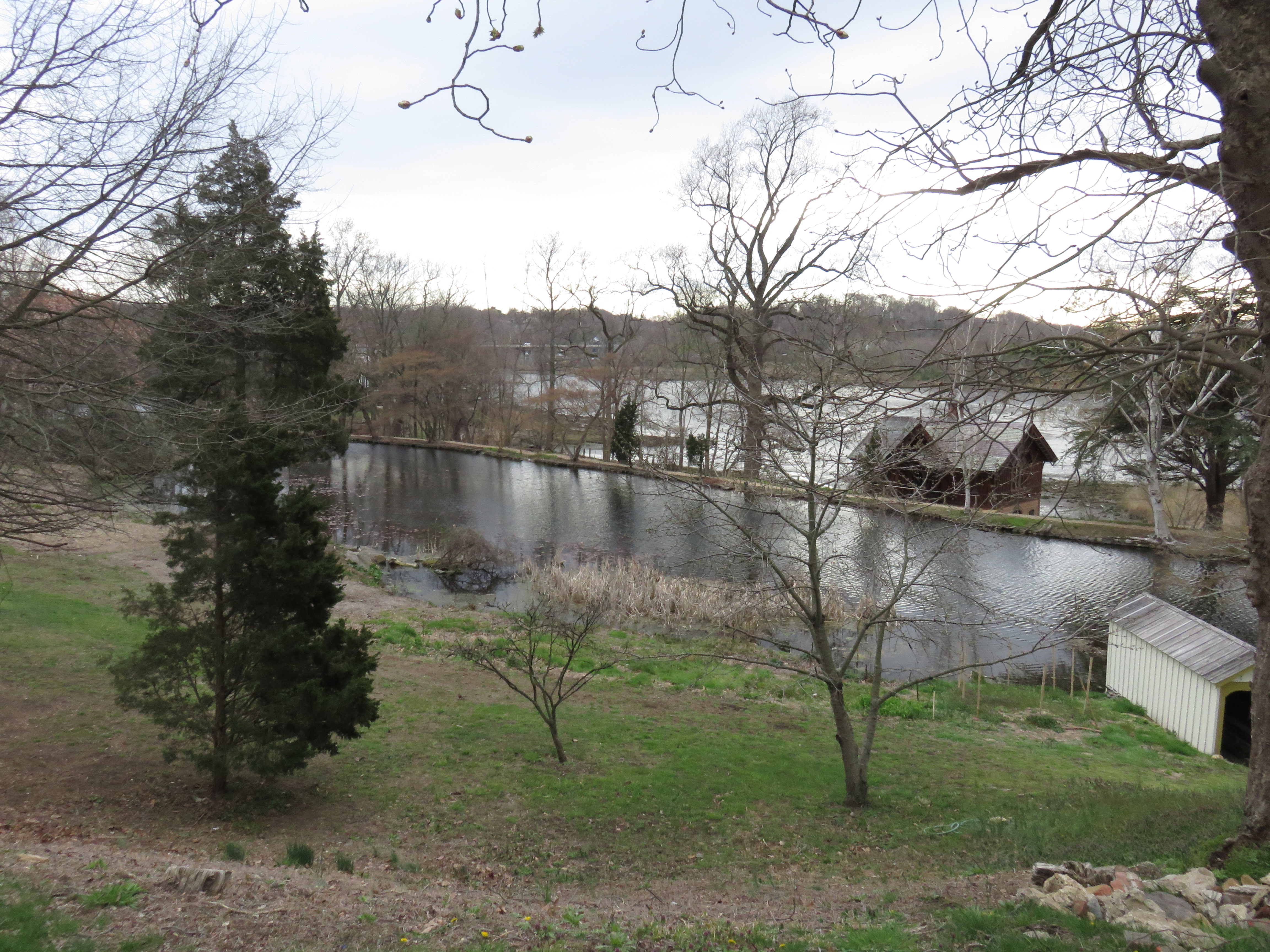 Pond at Cedarmere in Roslyn Harbor, New York in 2016